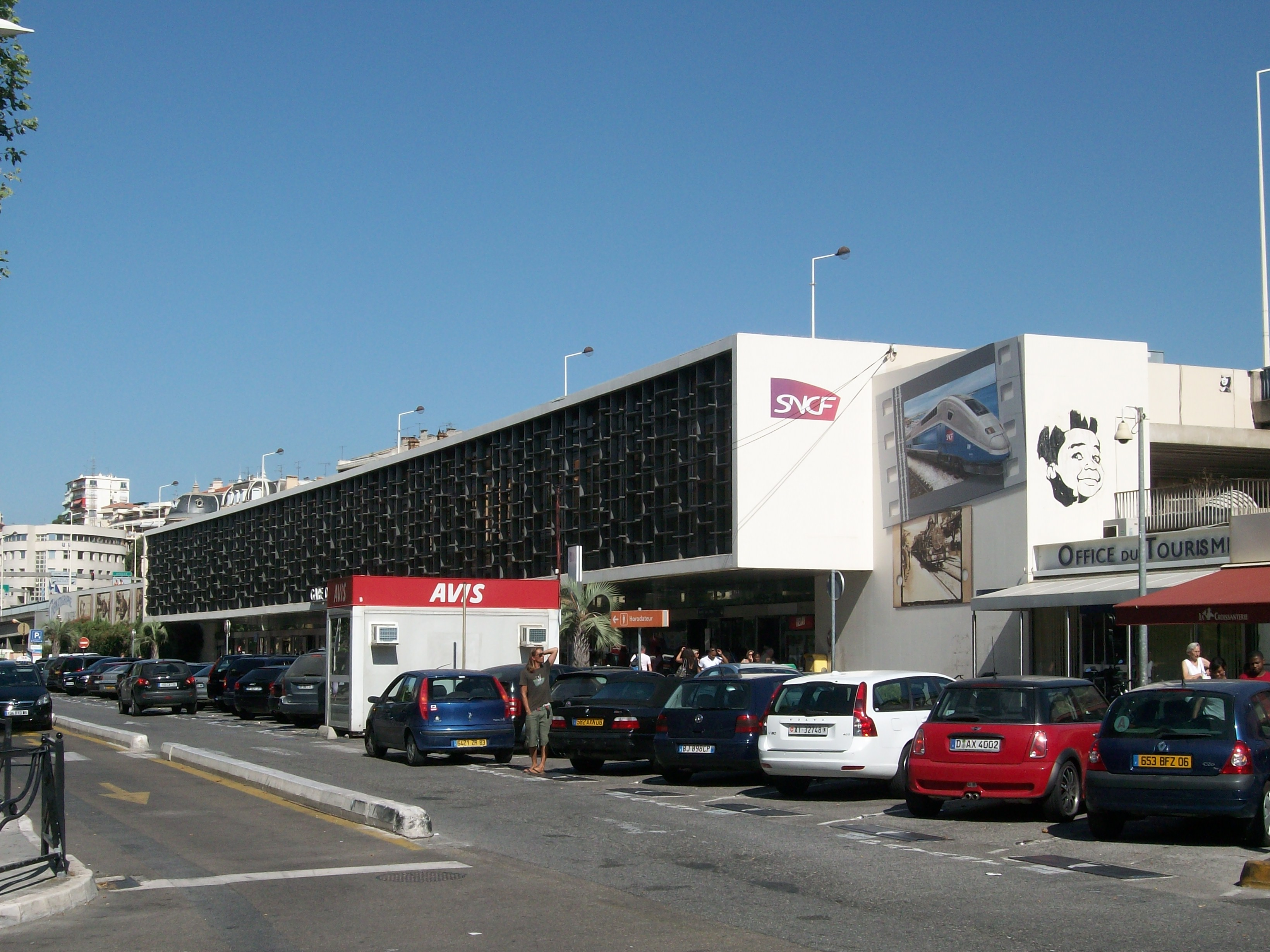 Railway station of Cannes